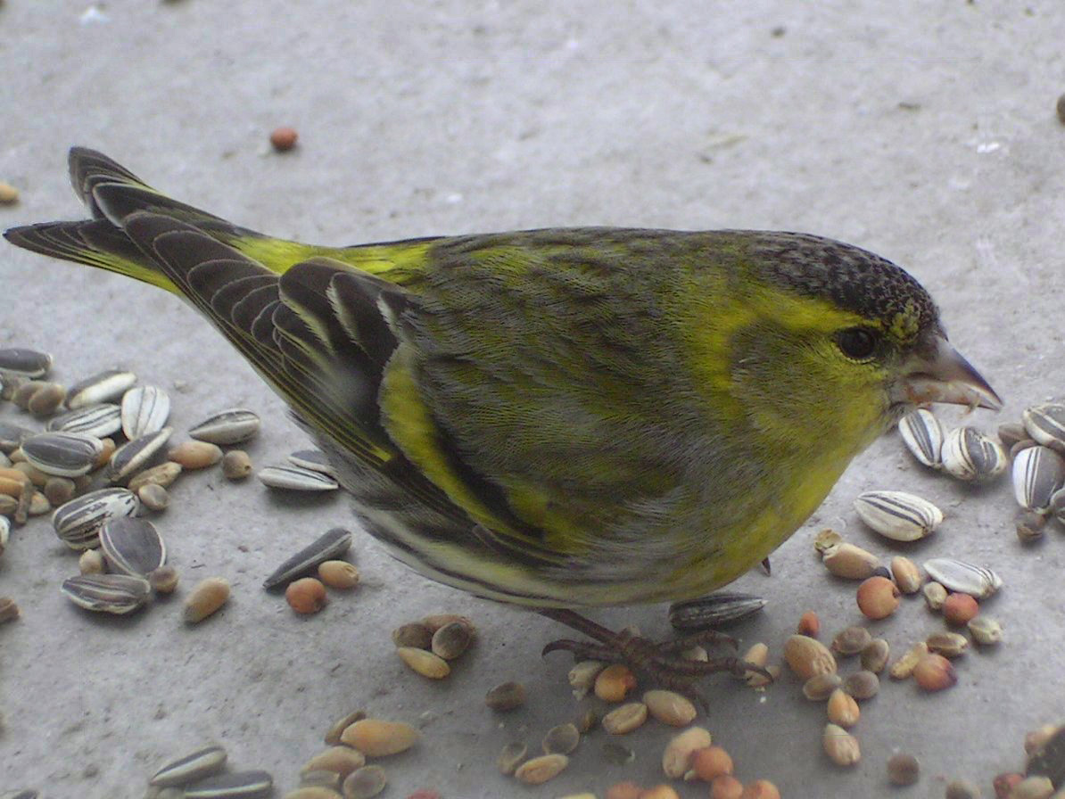 Eurasian Siskin